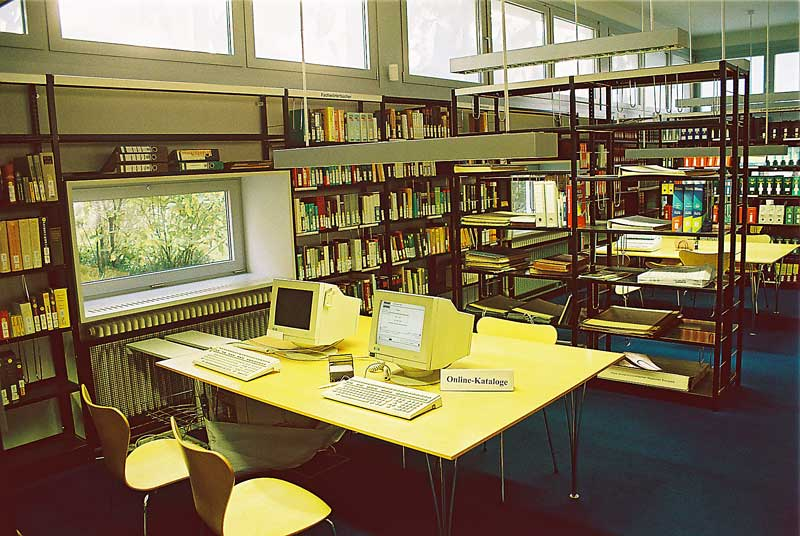 Inside the Library of the FH Eberswalde, Germany.